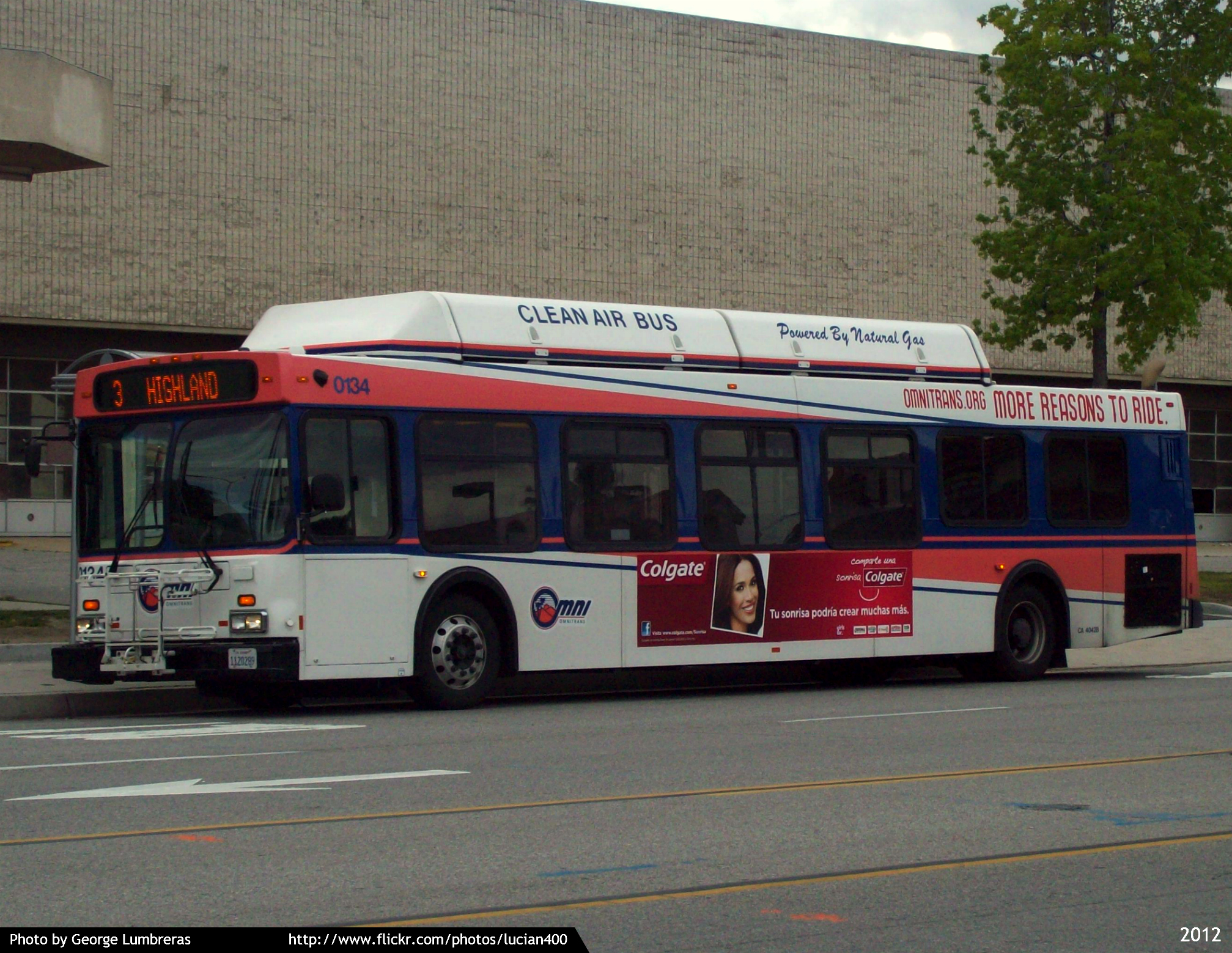 2001 Omnitrans New Flyer C40LF #0134 @ 4th Street Transfer Center (4th Street between F Street and G Street) in San Bernardino, CA On Line 3 counter-clockwise eastbound to Highland via Arrowhead Avenue & Baseline Street